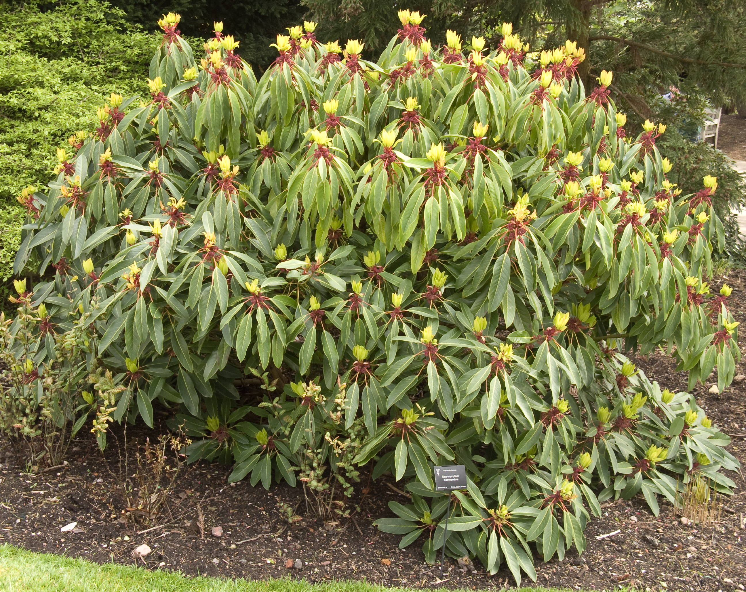 Daphniphyllum macropodum growing in the Birmingham Botanical Gardens, Birmingham, UK